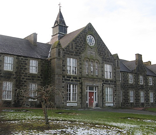 Buchan Combination poorhouse constructed 1867; used as Maud Hospital until circa 2008